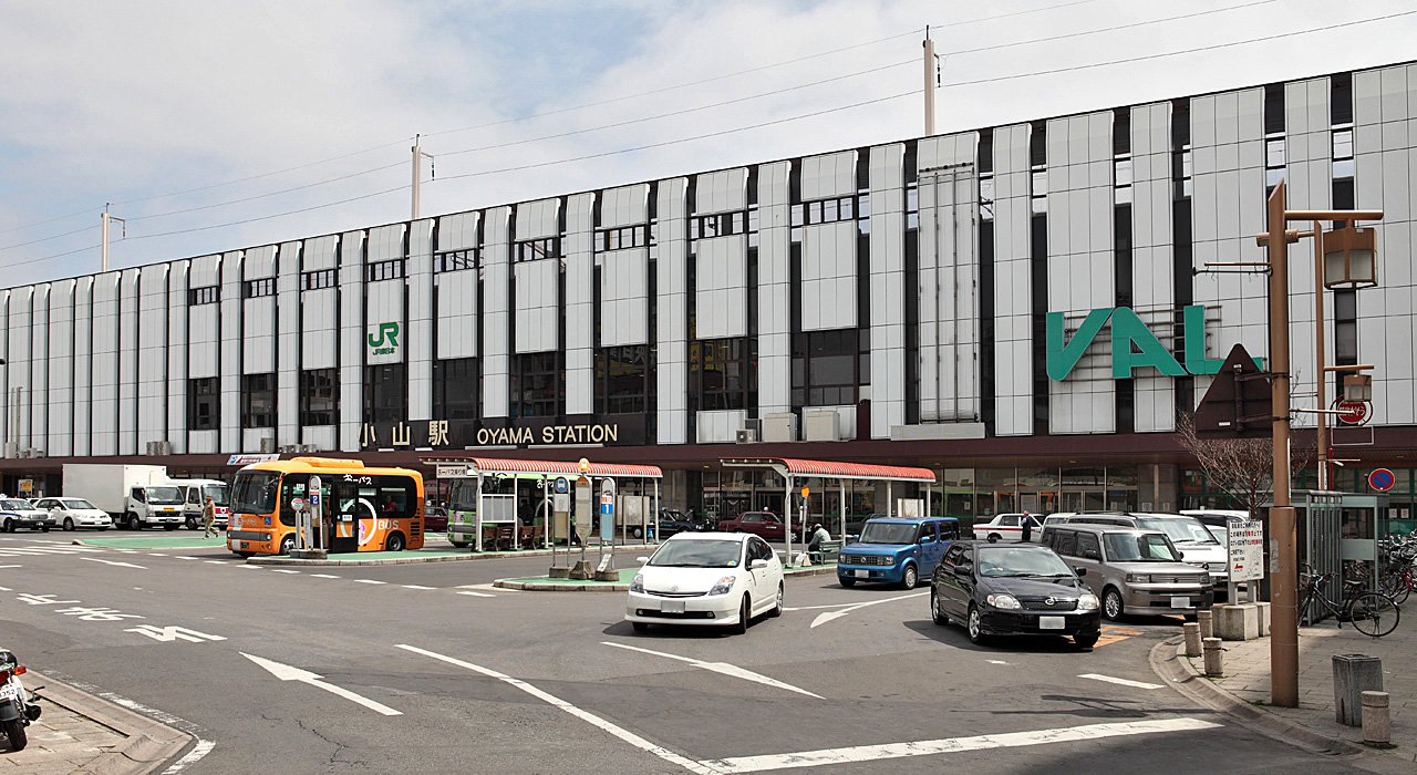 West entrance of JR East Oyama Station